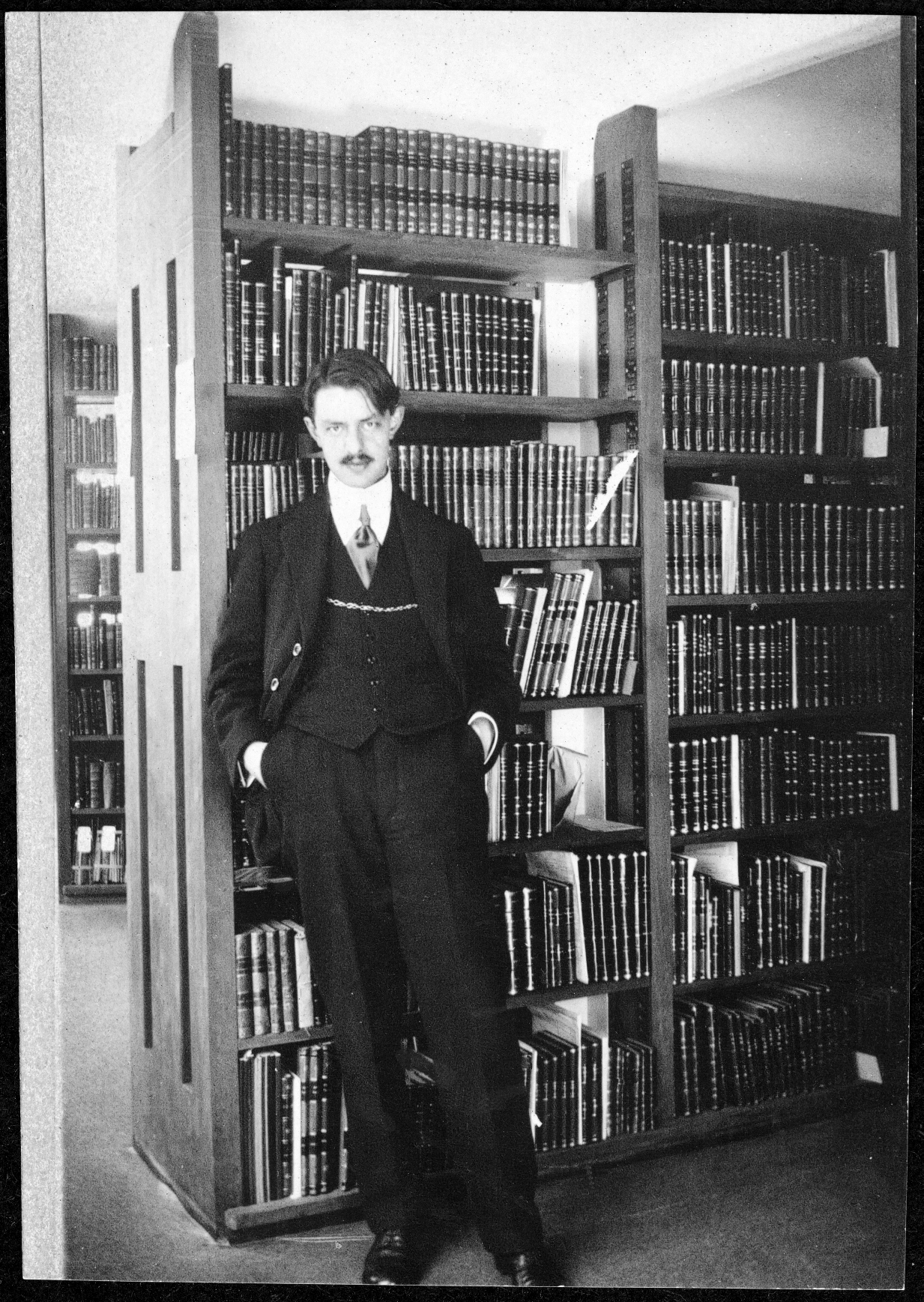 Photograph of the Finnish writer Lenning Söderhjelm (1888–1967).